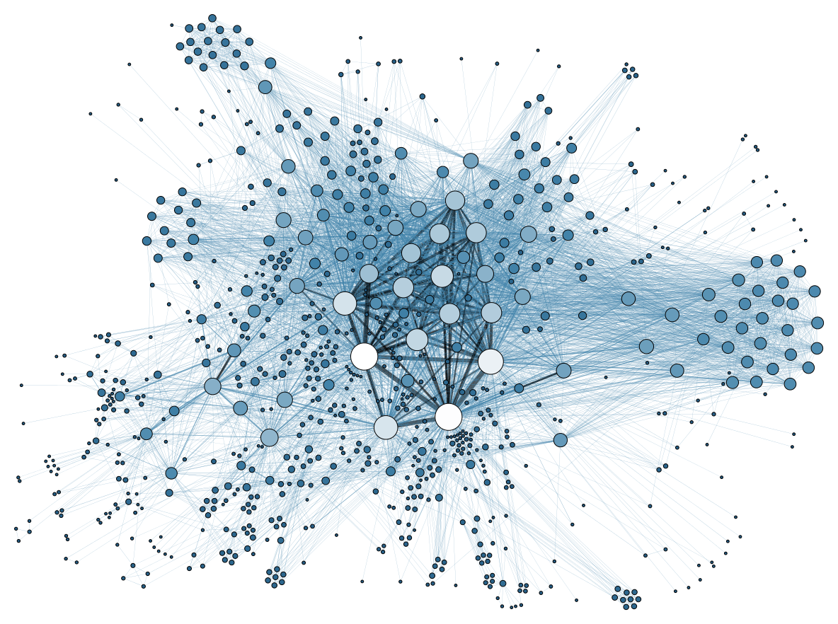 Graph representing the metadata of thousands of archive documents, documenting the social network of hundreds of League of Nations personals. Grandjean, Martin (2014). "La connaissance est un réseau". Les Cahiers du Numérique 10 (3): 37-54.